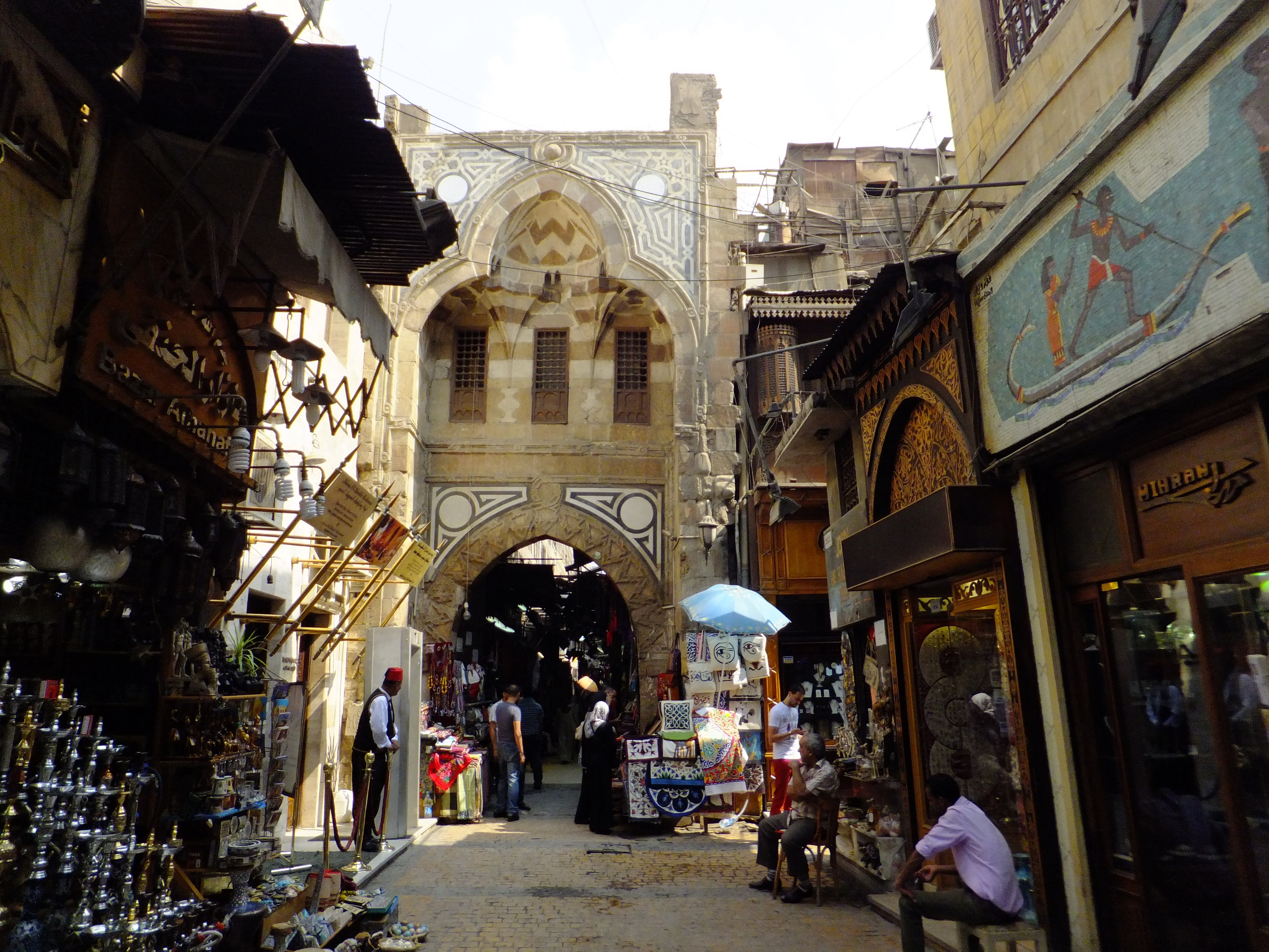 Bab al-Badistan, a gate in Khan el-Khalili.